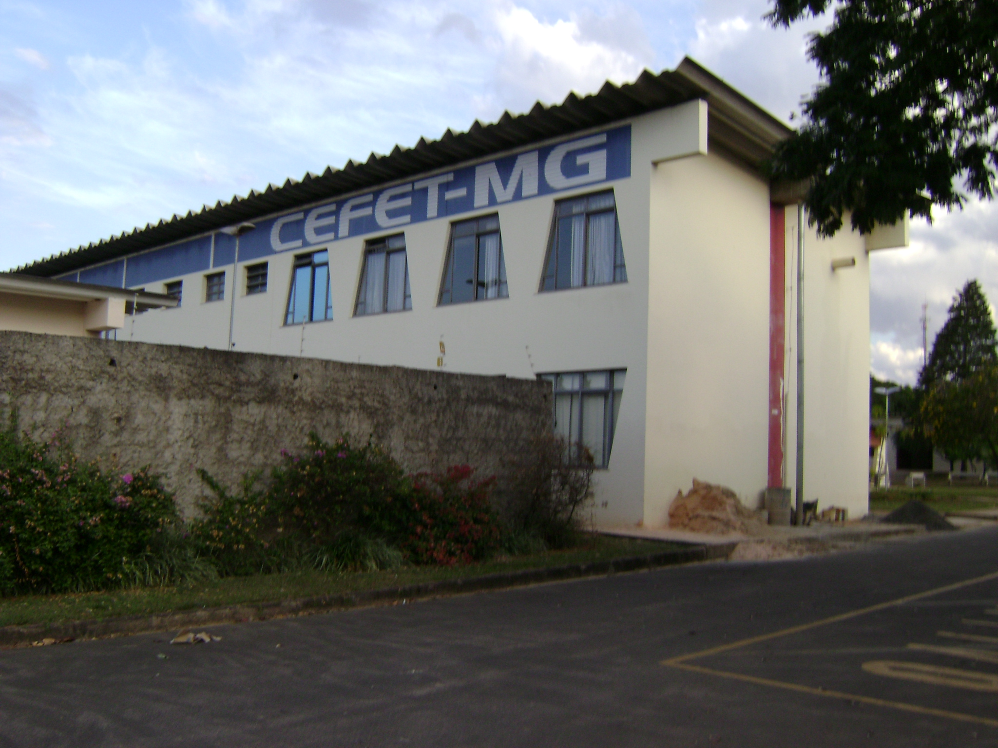 Prédio do CEFET-MG unidade Araxá, em Minas Gerais, Brasil.